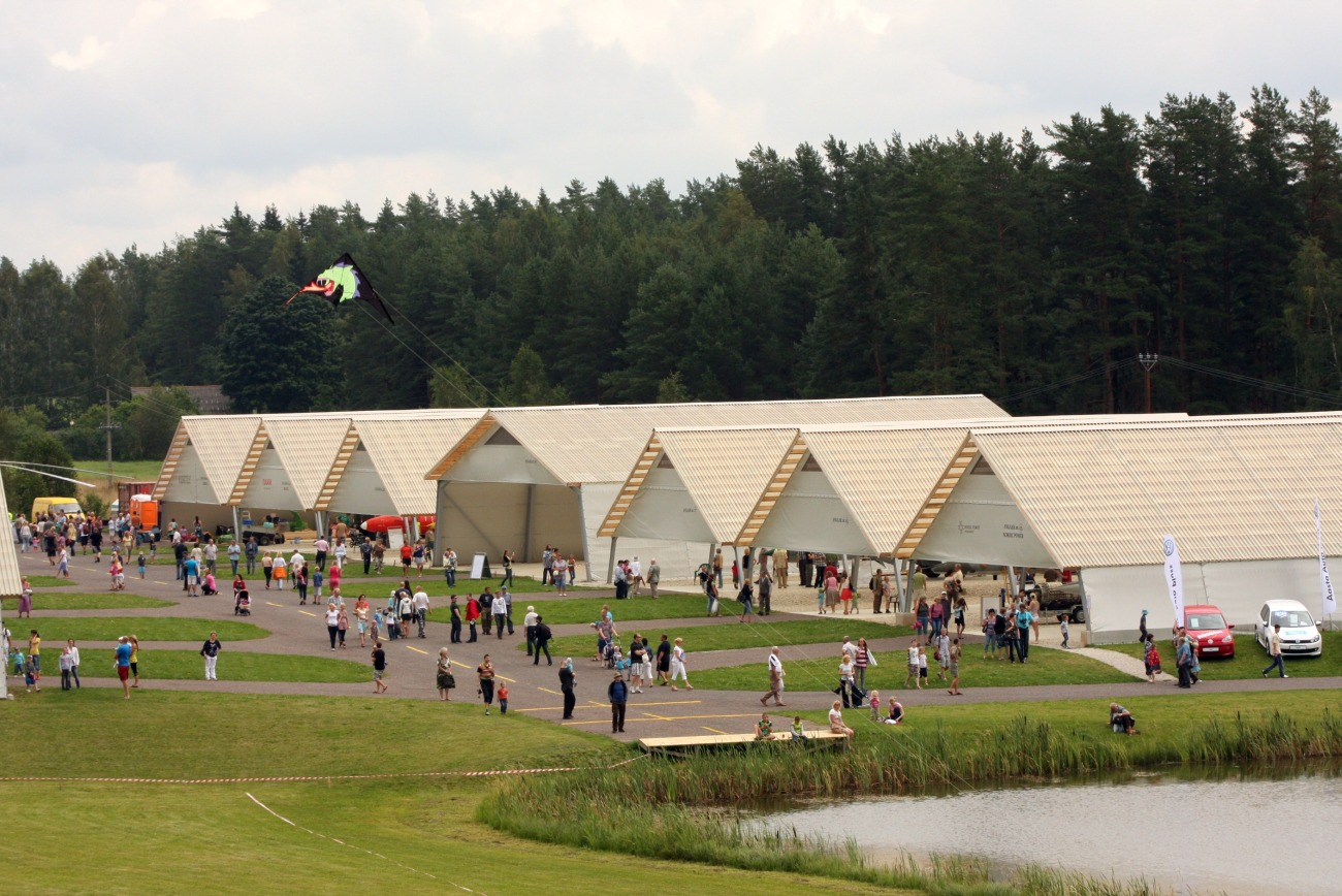 Estonian Aviation Museum during Estonian Aviation Days 2012.